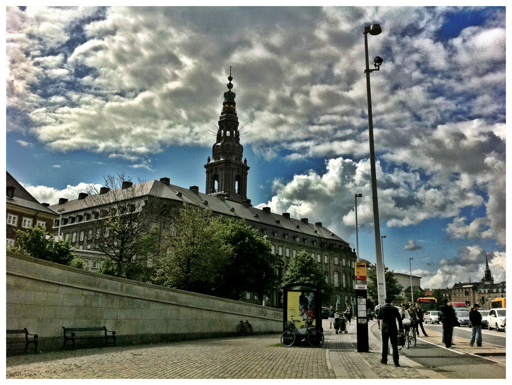 Danish Parliament